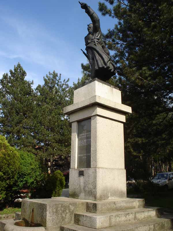 Monument 1300 каплара (caplars) on Rajac (Serbia, SCG) in remembering of 1300 (of whom about 400 died) caplars/students who joined Kolubara battle and help Serbian forces to win.